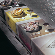 Detail of the art installation "The Dinner Party" by the American artist Judy Chicago. This is a detail of a larger photo of the installation. The selection has been approved by Megan Schultz